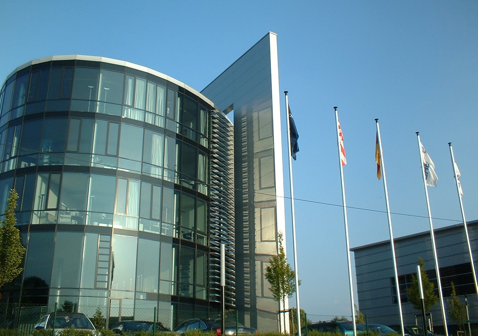 OHB Building 1